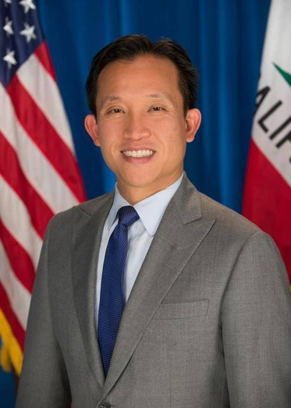 Official California State Assembly photo of David Chiu